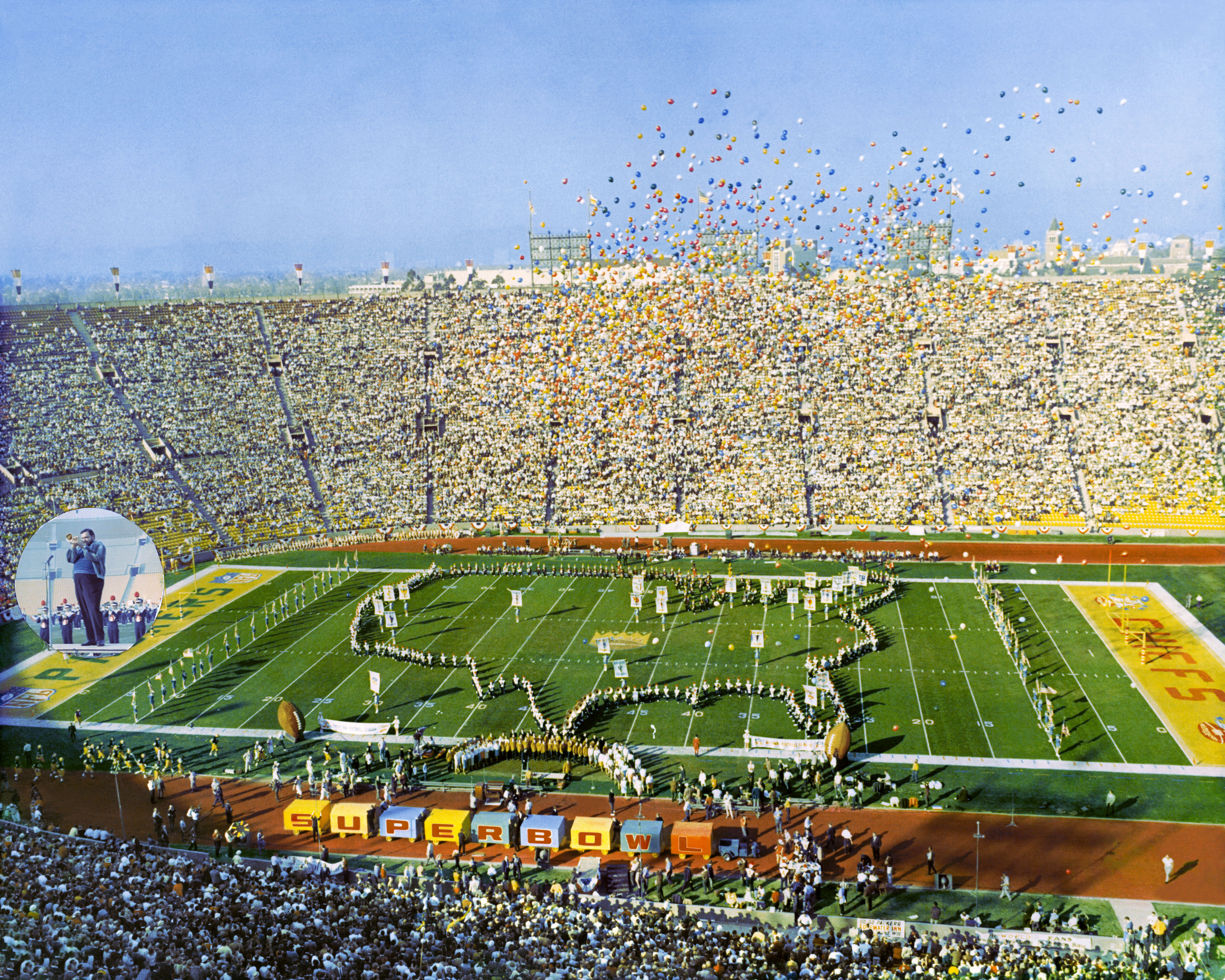 University of Arizona Symphonic Marching Band & Grambling State University Marching Band, Al Hirt, Anaheim High School Drill Team and Flag Girls